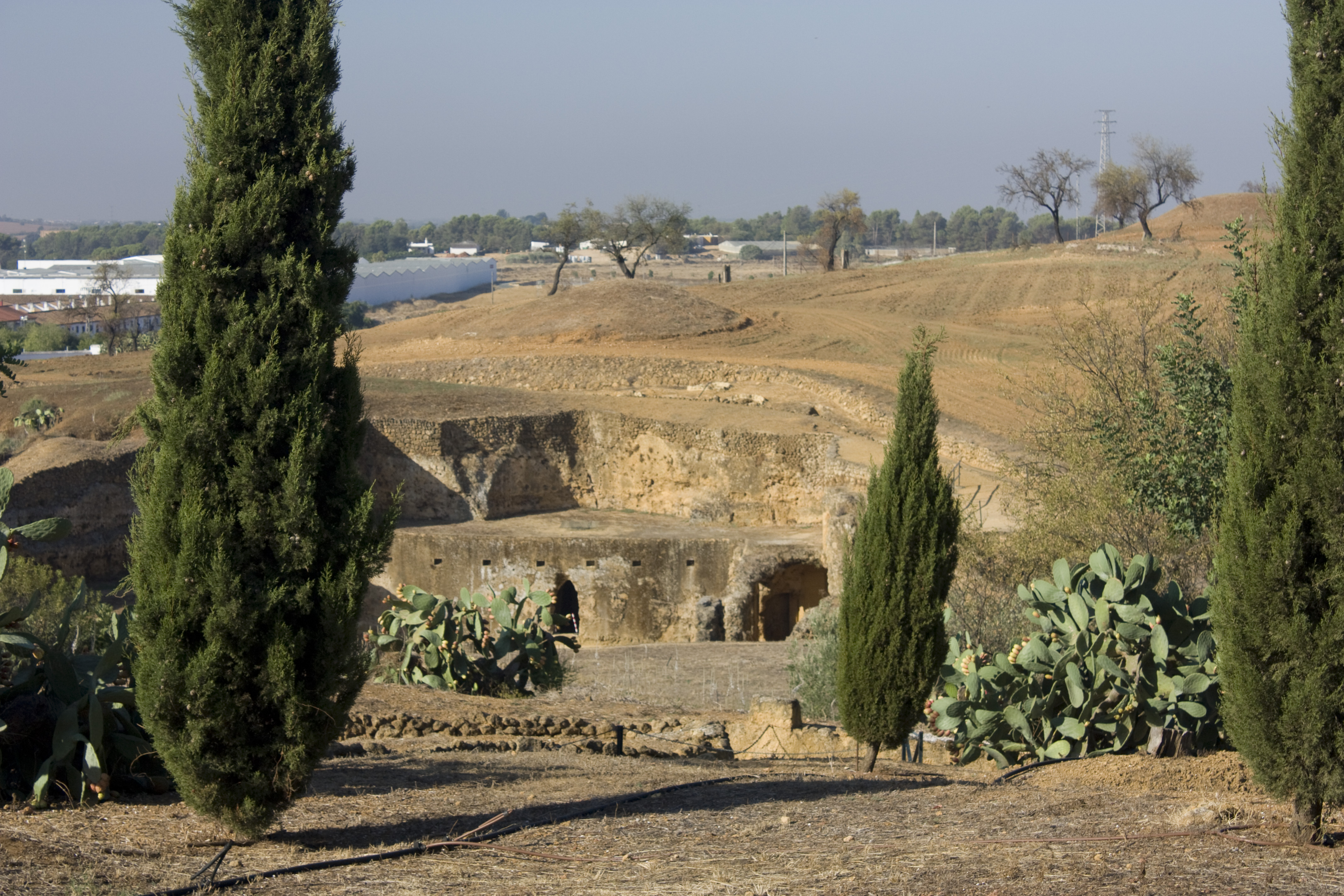 Tumulus the archaeological identified and protected area.